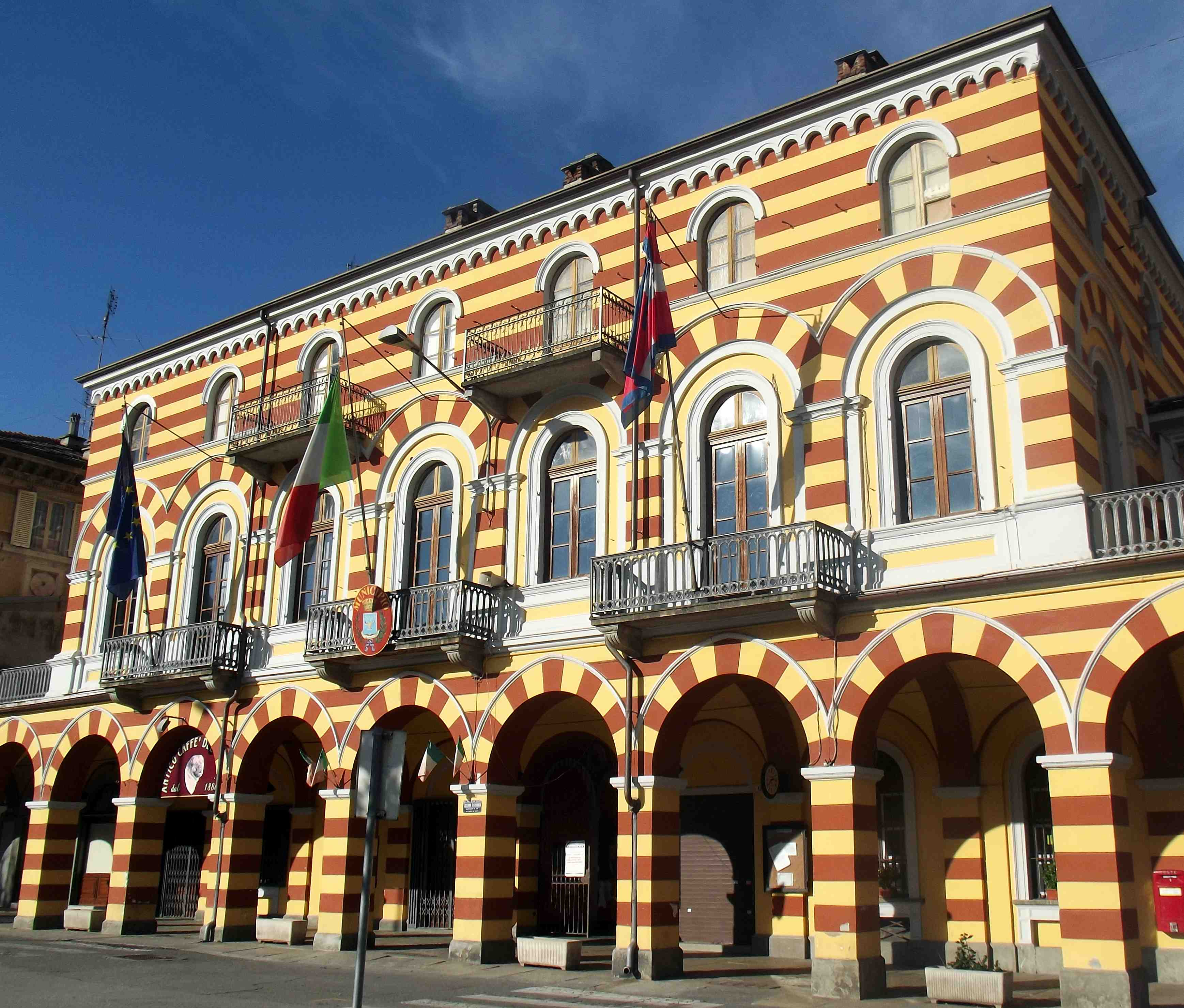 Luserna San Giovanni (TO, Italy): town hall